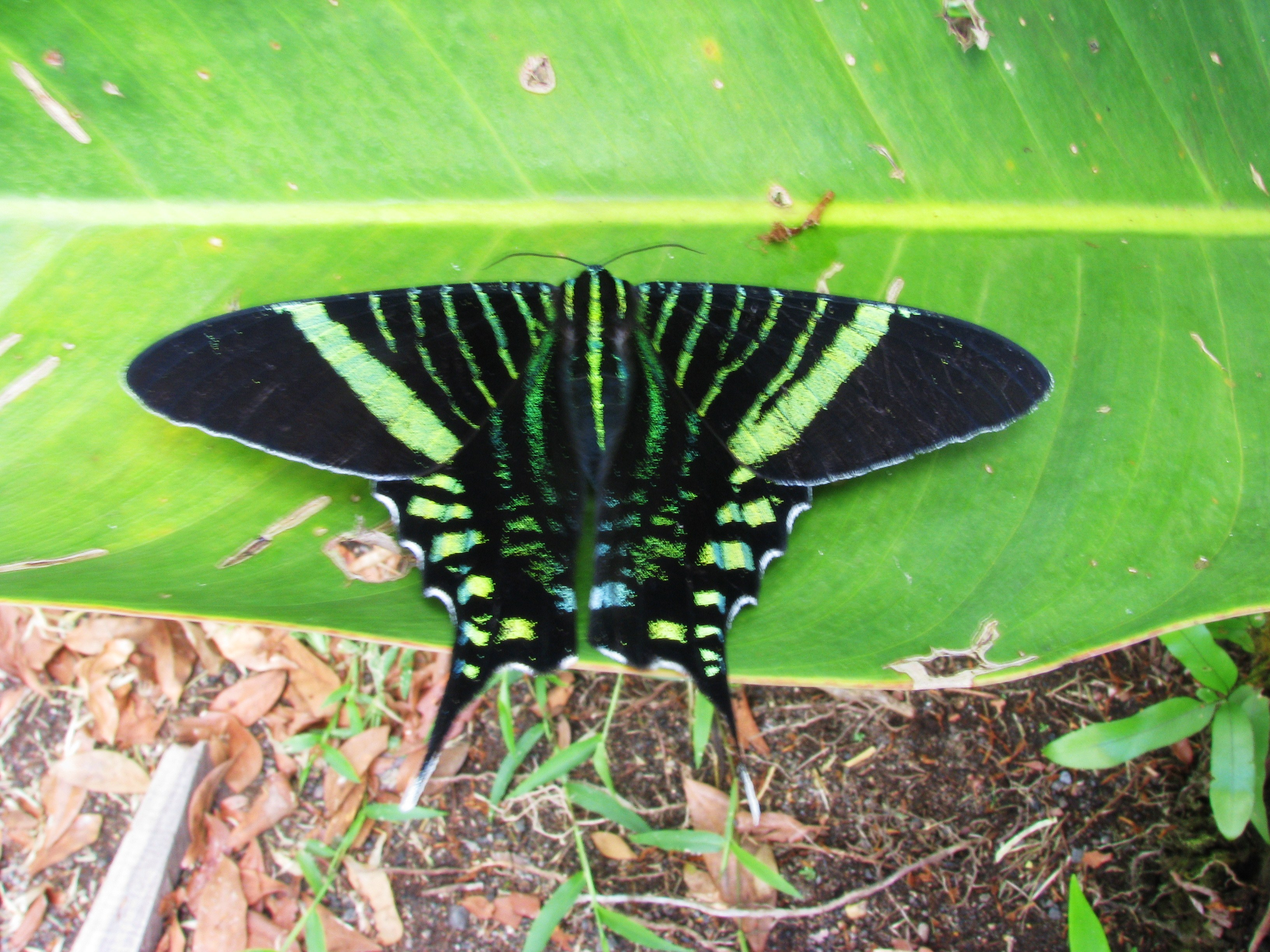 Green page moth (Urania fulgens)